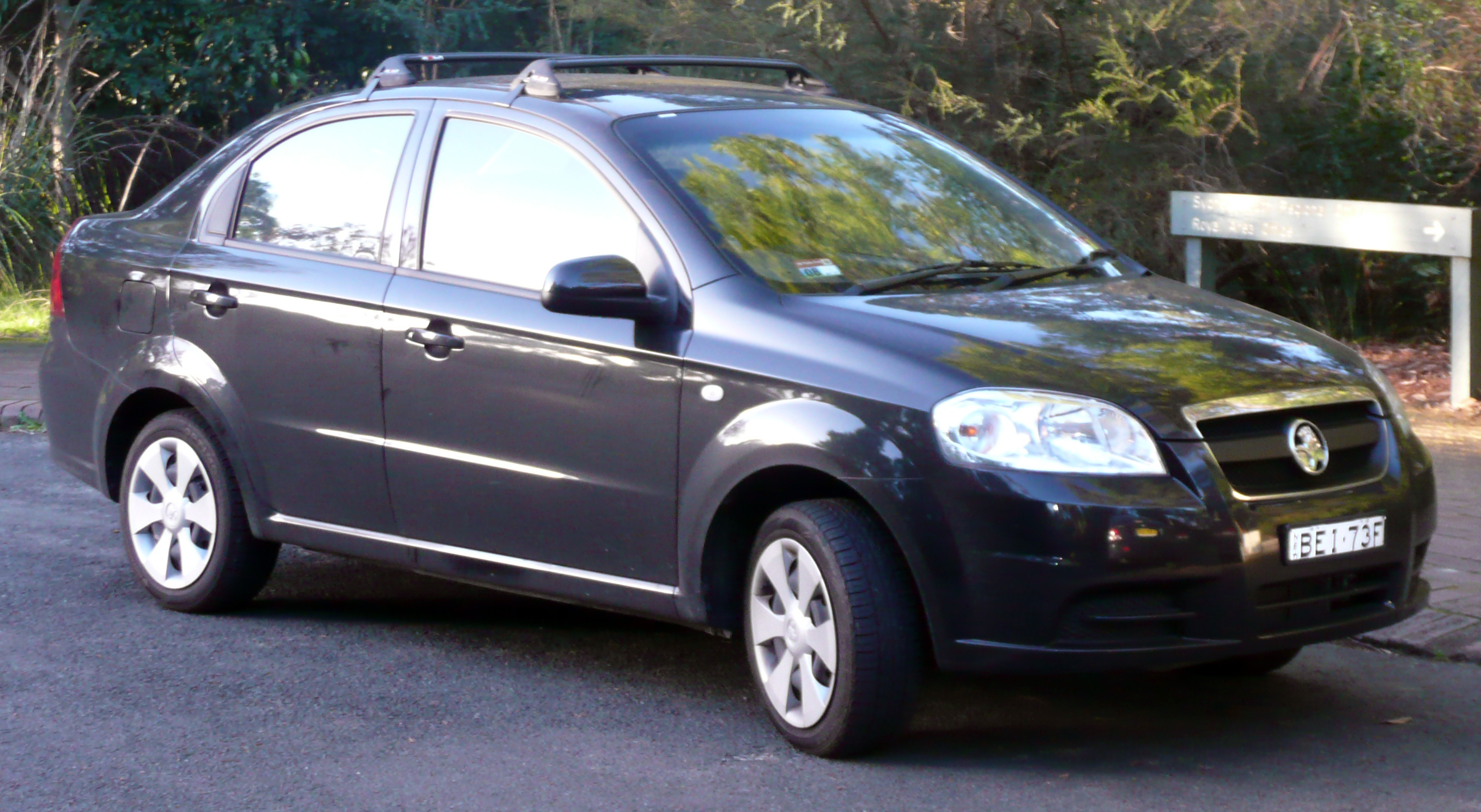 2007 Holden Barina (TK MY08) sedan. Photographed in Audley, New South Wales, Australia.